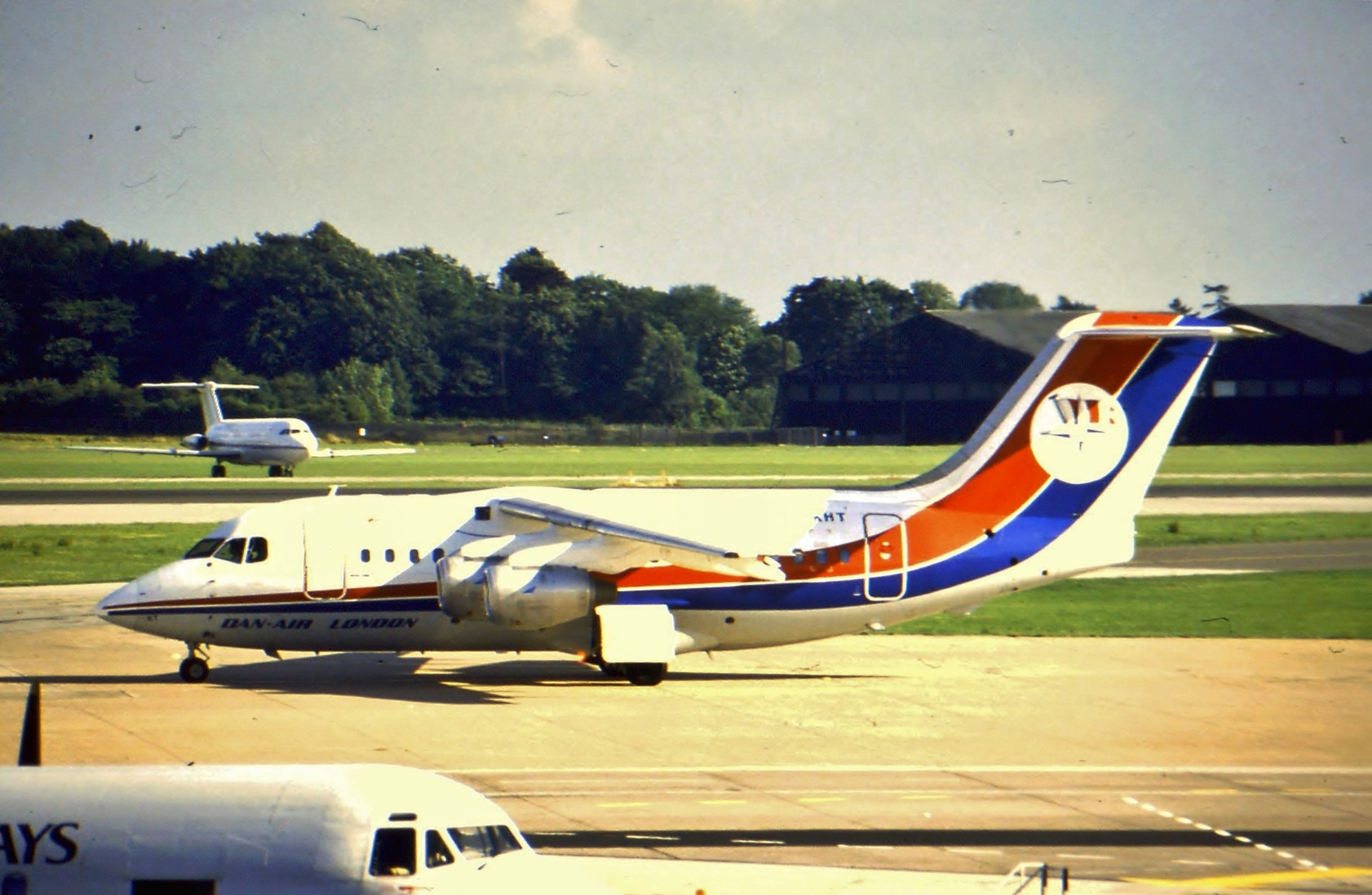 The Gatwick service heading for the departure end of the Manchester single runway (then).